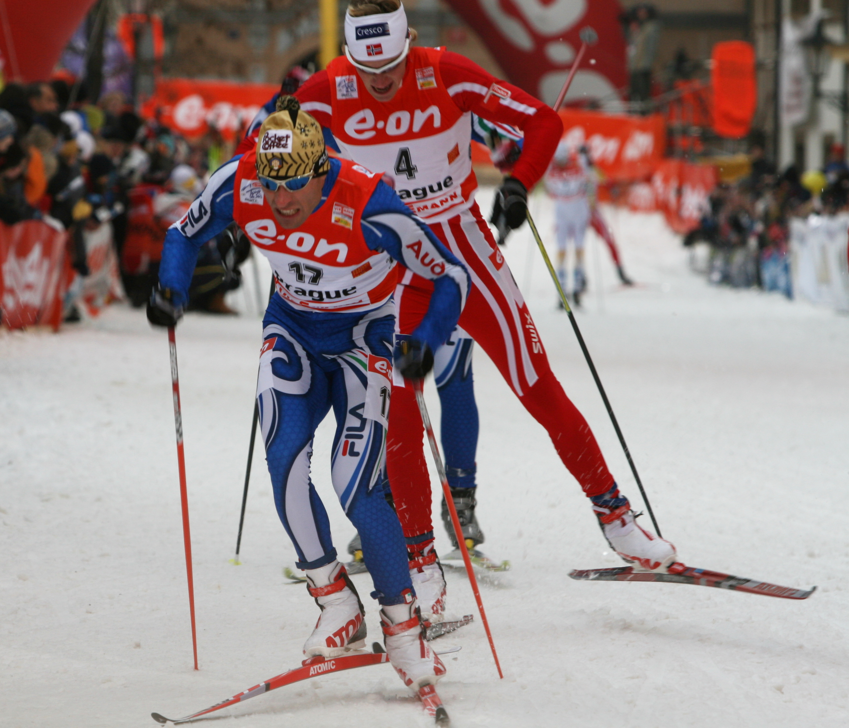 Giorgio Di Centa, #4 Simmen Östensen behind, in the quarterfinals of Tour de Ski in Prague